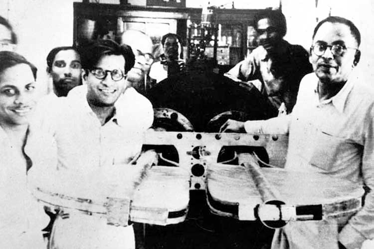 Meghnad Saha with his assistants in front of the magnet of the cyclotron at the Institute of Nuclear Physics. Front row (L to R): Dr. A. P. Patro, Dr. B. D. Nagchaudhari, Mr. B. M. Banerjee (only part of his face is visible) and Prof. M. N. Saha